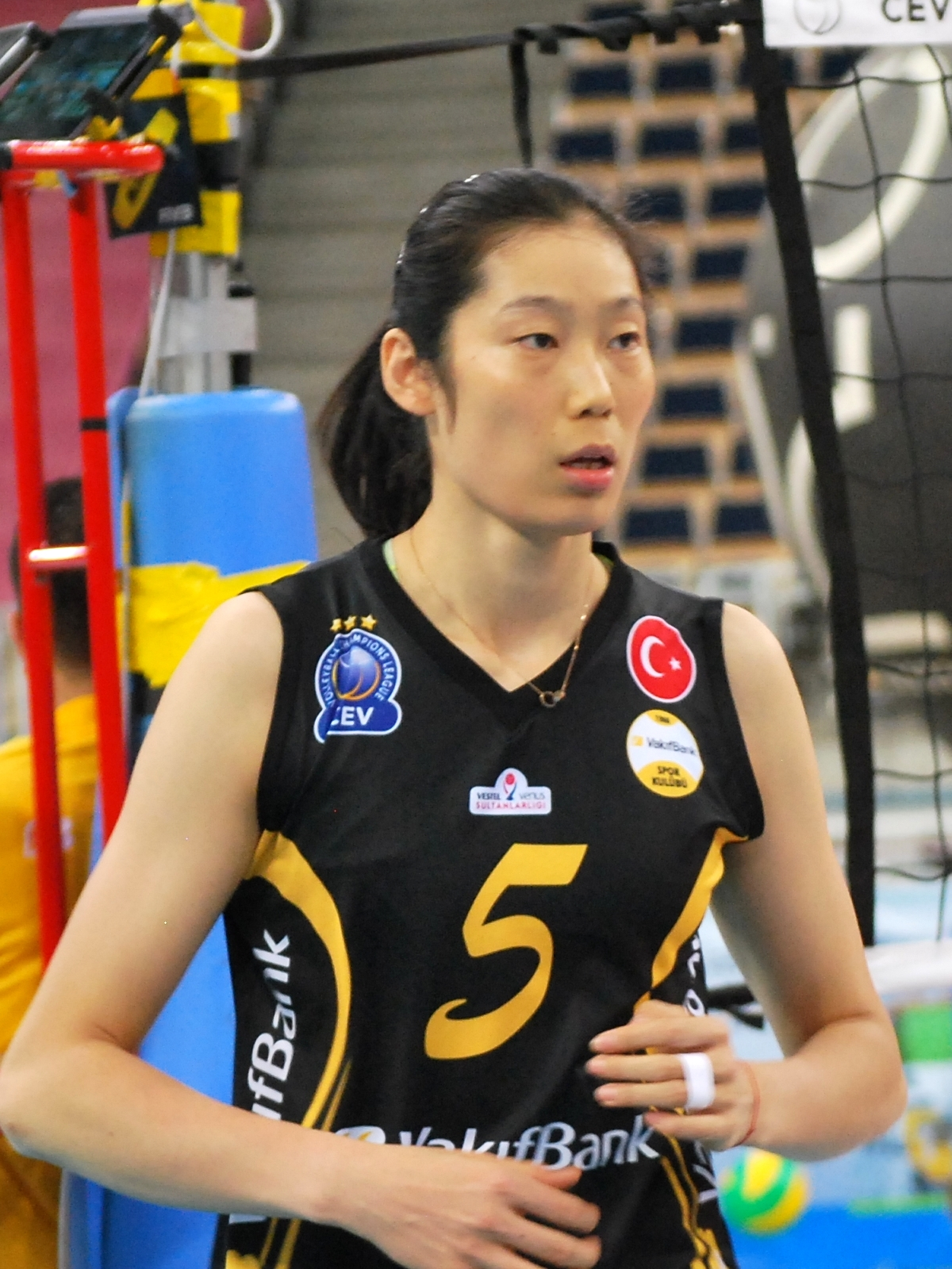 Zhu Ting, volleyball player from China